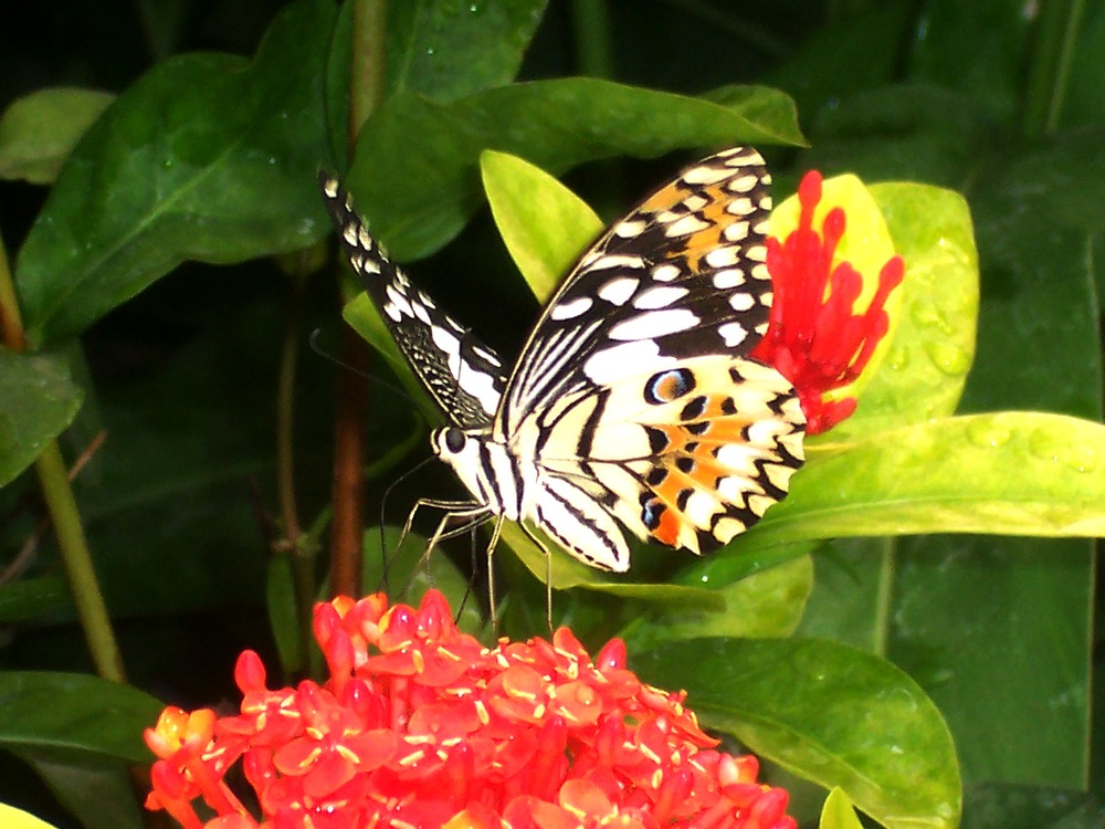 Papilio demoleus on Ixora flowers; Jakarta, Indonesia